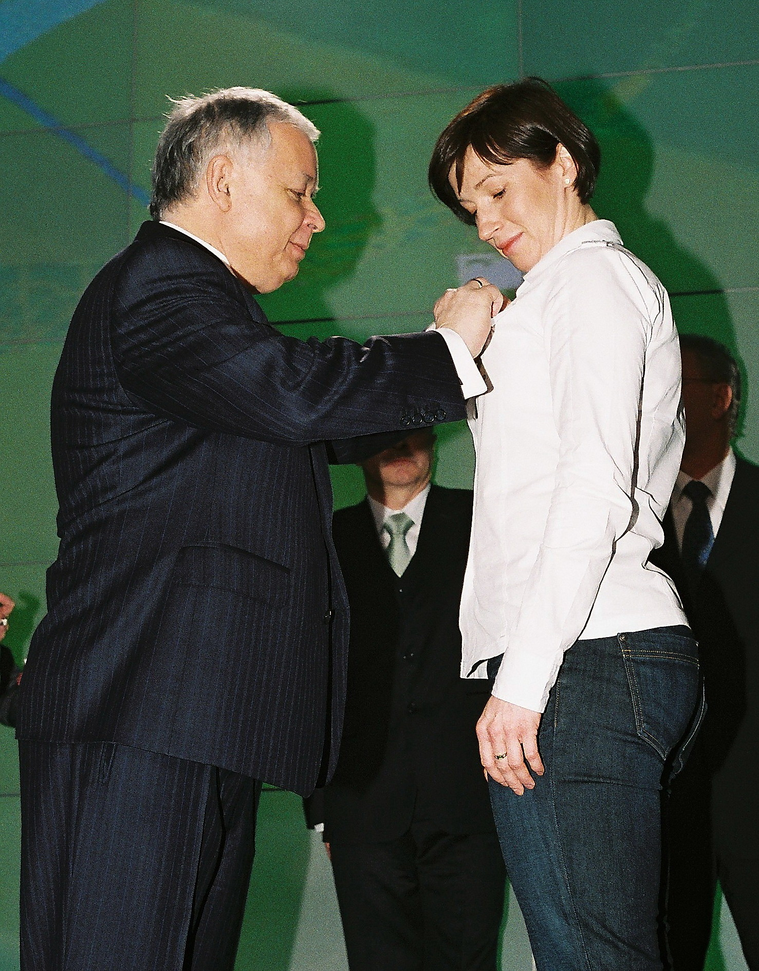 Katarzyna Bachleda-Curuś & Lech Kaczyński (PKOL) (2010)